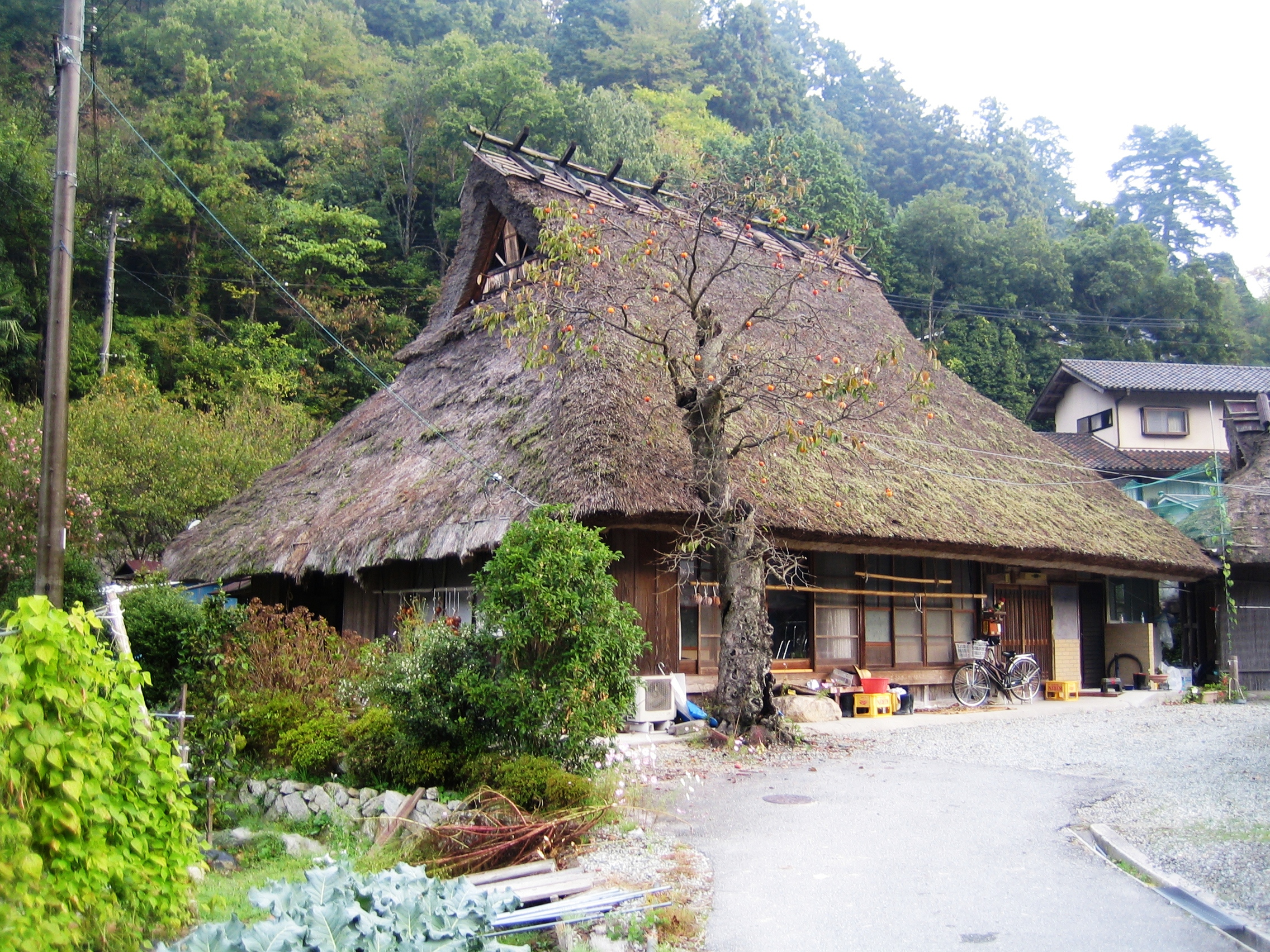 A scene at the foot of Mount Taka, Honshu, Japan.